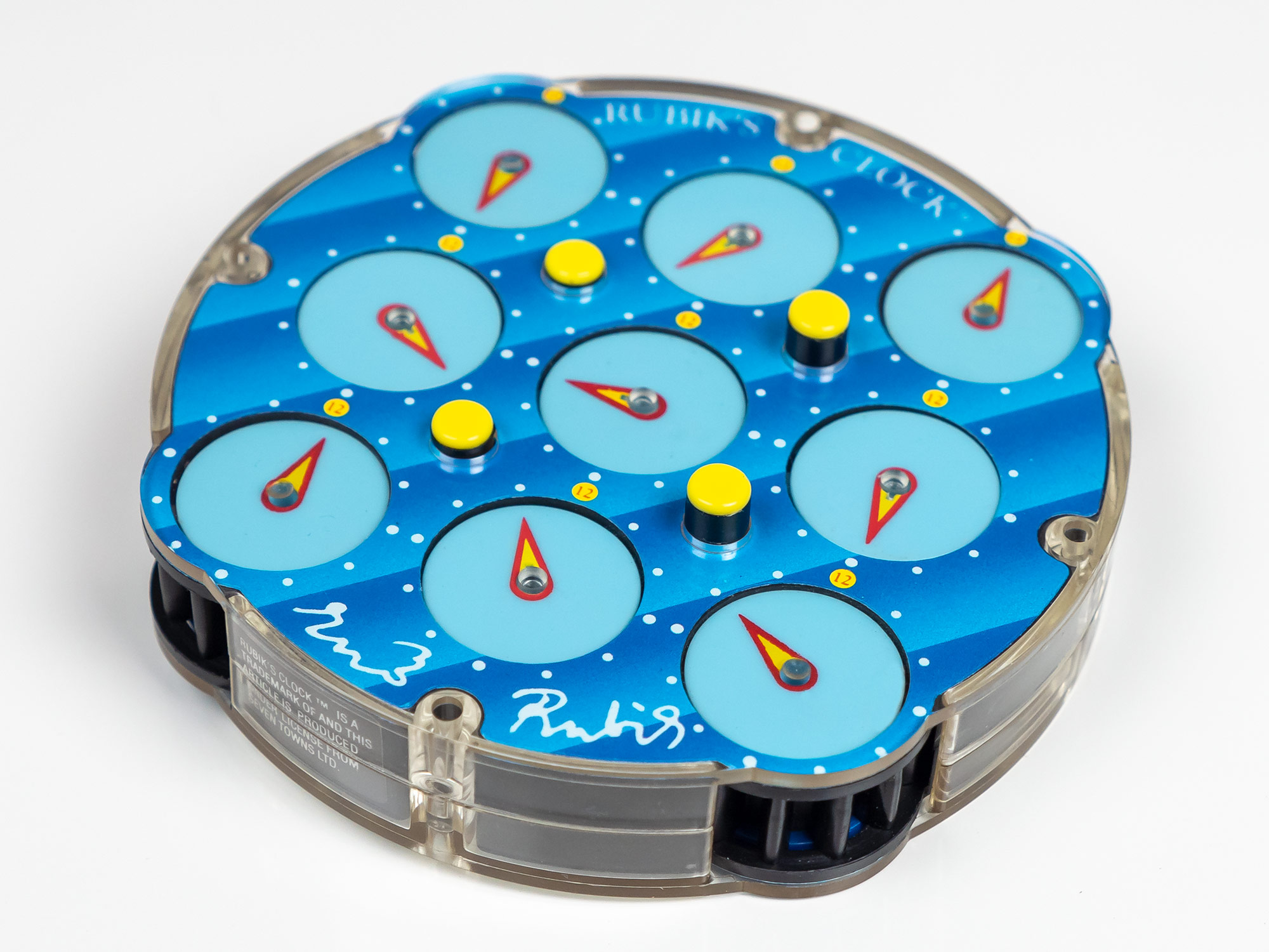 Unsolved Rubiks Clock from Matchbox 1988